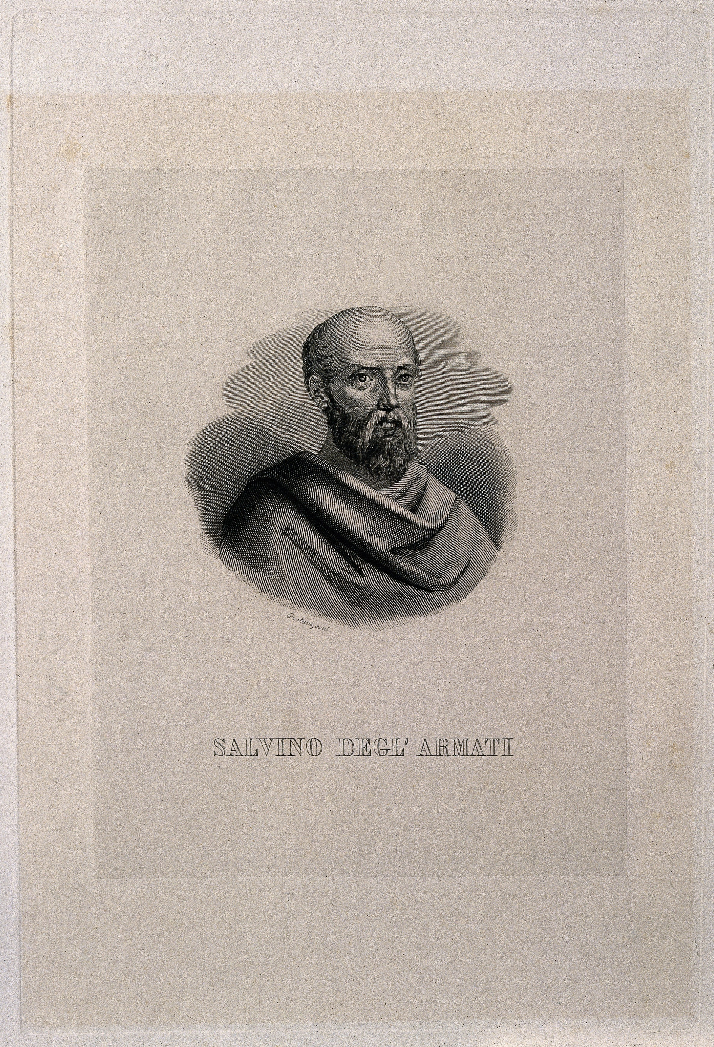 Salvino degli Armati. Line engraving by Gustave. Iconographic Collections Keywords: armati, salvino degli, 1256-13; portrait prints; engravings; Salvino degli Armati